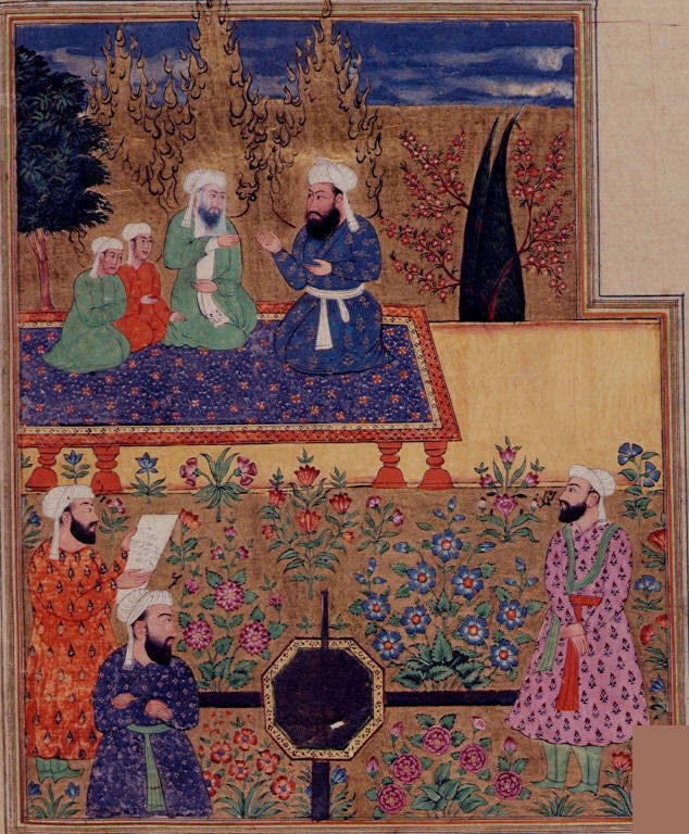 The Prophet, 'Ali, Husayn and Hasan in Paradise; 'Uthman, 'Umar and Abu Bakr are in the foreground. Miniature from a 17th century manuscript of Khavarnama, a poem on the deeds of 'Ali; Punjab (BL)